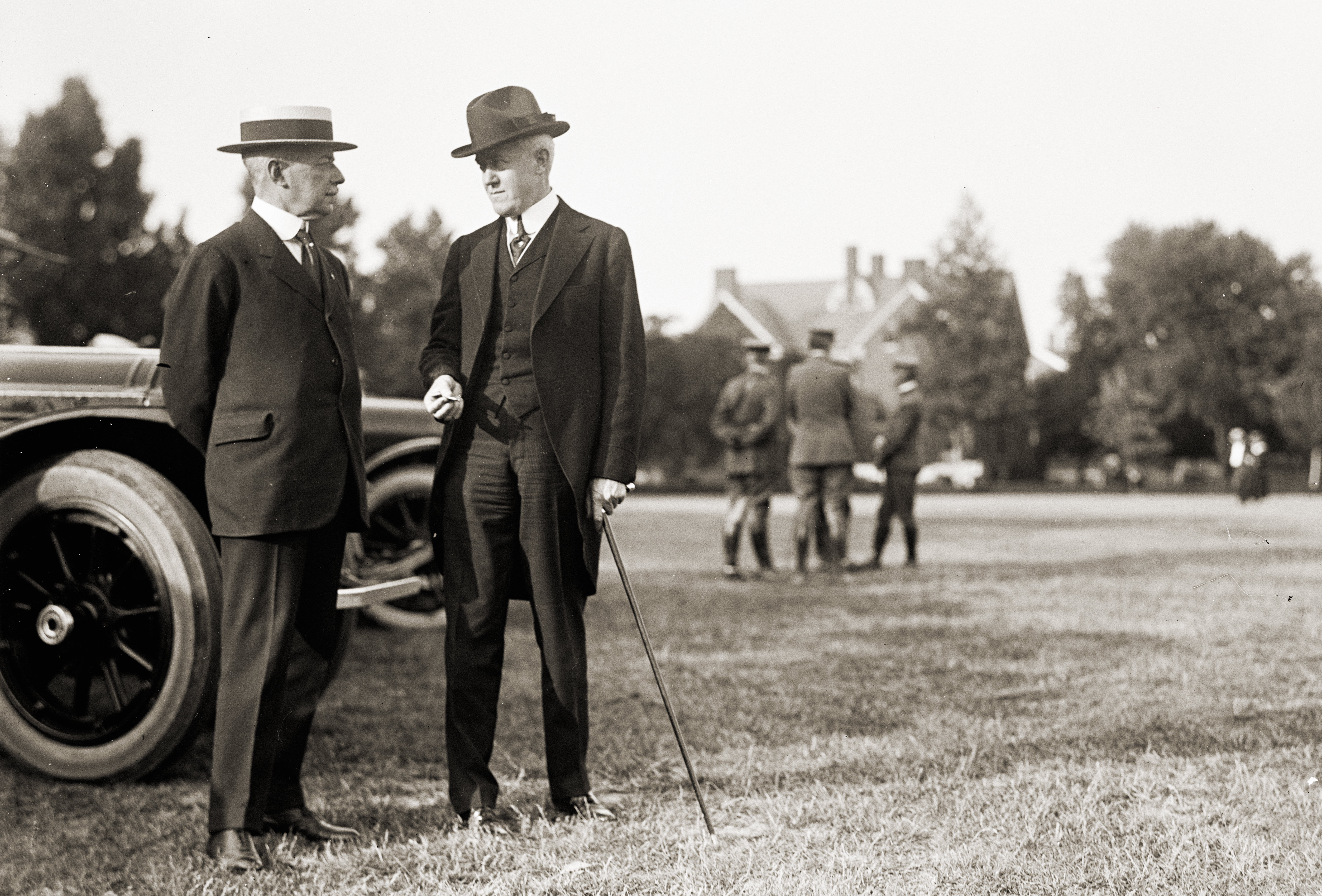 Robert Lansing, the United States Secretary of State during World War I, is the man on the left. John W. Davis, the Solicitor General of the United States during World War I is the man on the right.